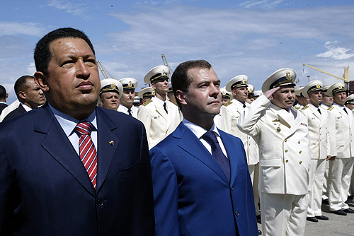 LA GUAIRA, VENEZUELA. With Venezuelan President Hugo Chavez on board of the Russian frigate “Admiral Chabanenko”.